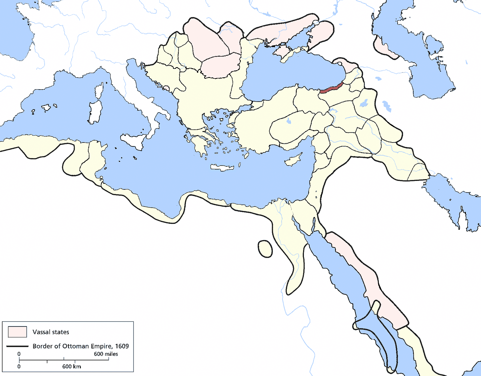 Trebizond Eyalet, Ottoman Empire (1609). Source: Encyclopedia of the Ottoman Empire at Google Books By Gábor Ágoston, Bruce Alan Masters